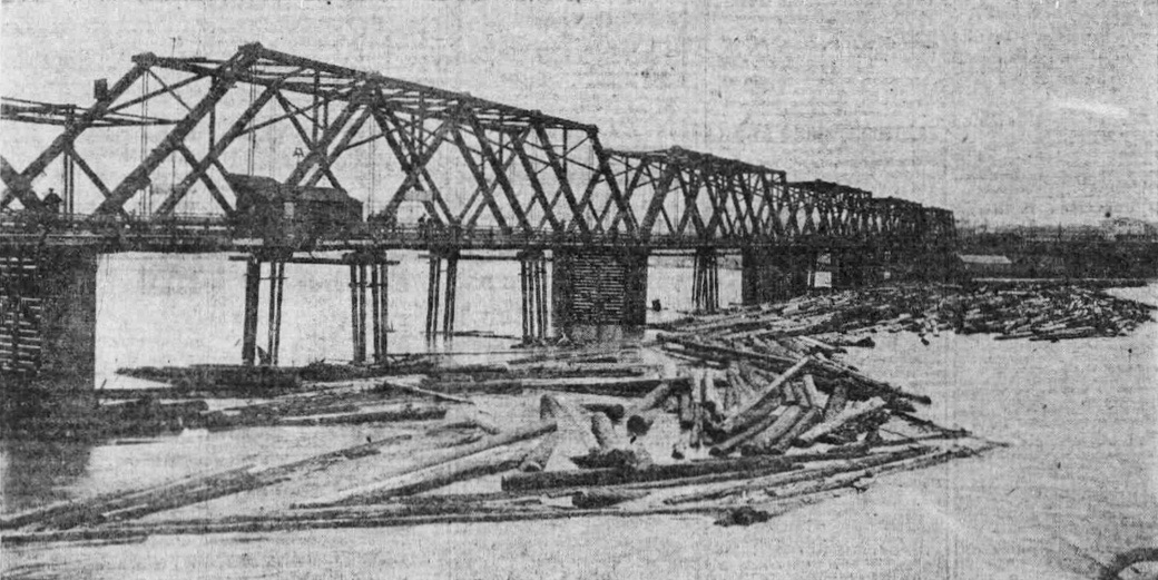 The Madison Street Bridge No. 2 (rebuilt from Madison Street Bridge No. 1), in Portland, Oregon, in March 1908, when a log jam that had accumulated around the bridge spanned most of the Willamette River. This newspaper photo is looking east and shows the south side of the bridge. The swing-span section (or "draw span") is just out of view to the left.